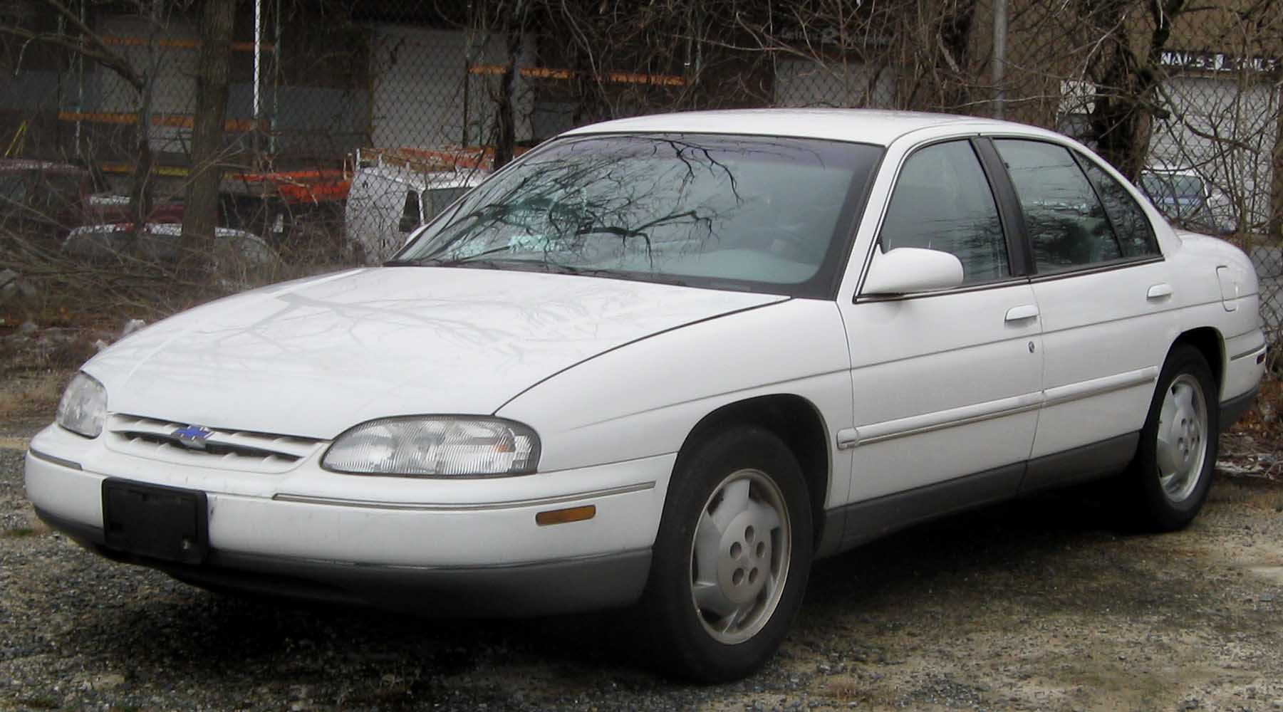 1995-2001 Chevrolet Lumina photographed in Rockville, Maryland, USA.